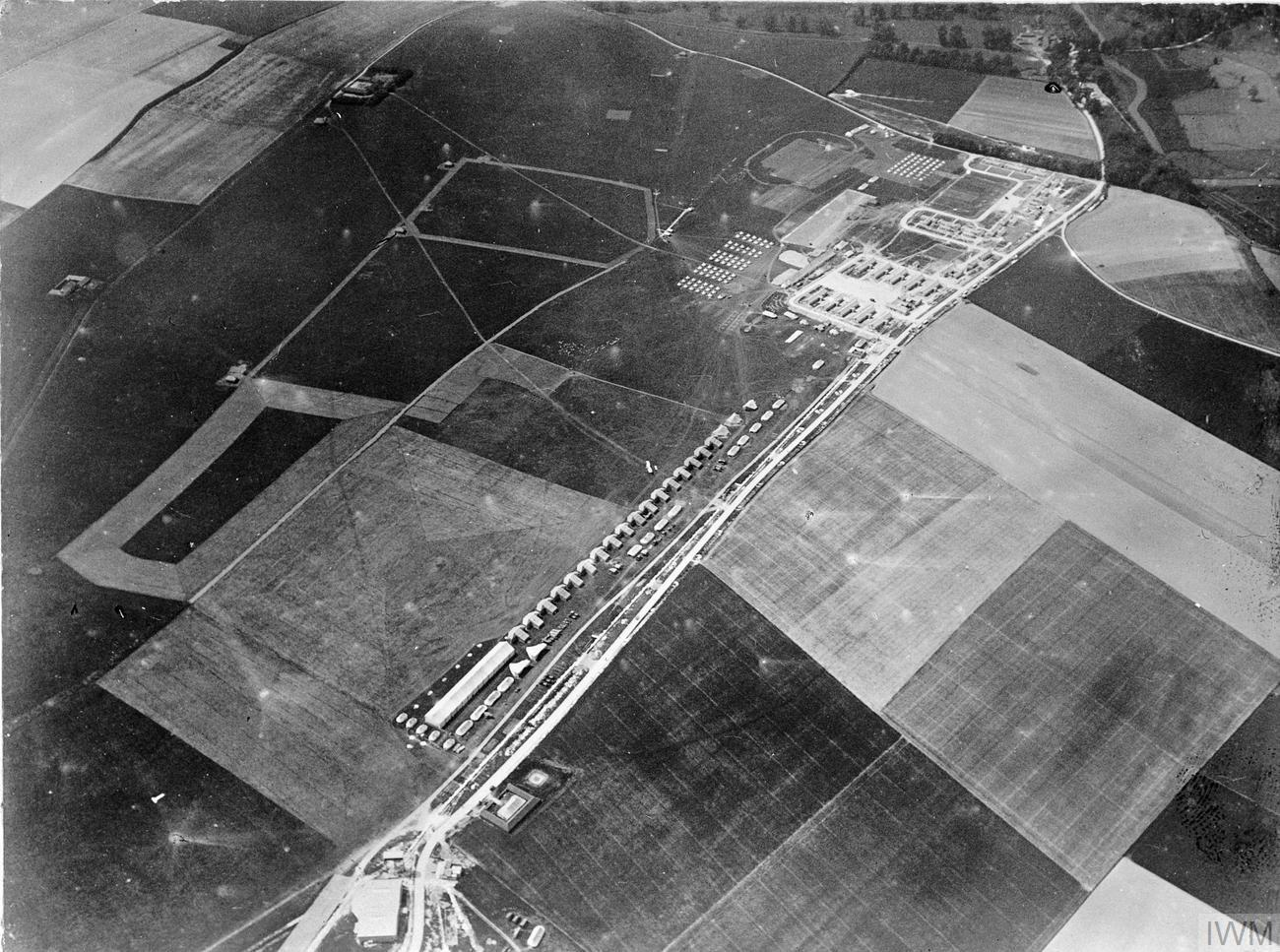 Aerial Photography Before the First World War Aerial view of Netheravon "Concentration Camp" in Wiltshire shortly before the outbreak of the First World War. This photograph was taken during British Army trials of mobilisation procedures and manoeuvres. The photographer used a Panros camera mounted in a Maurice Farman aircraft. This mission led to the discovery of the art of photographic interpretation for aerial photographs.